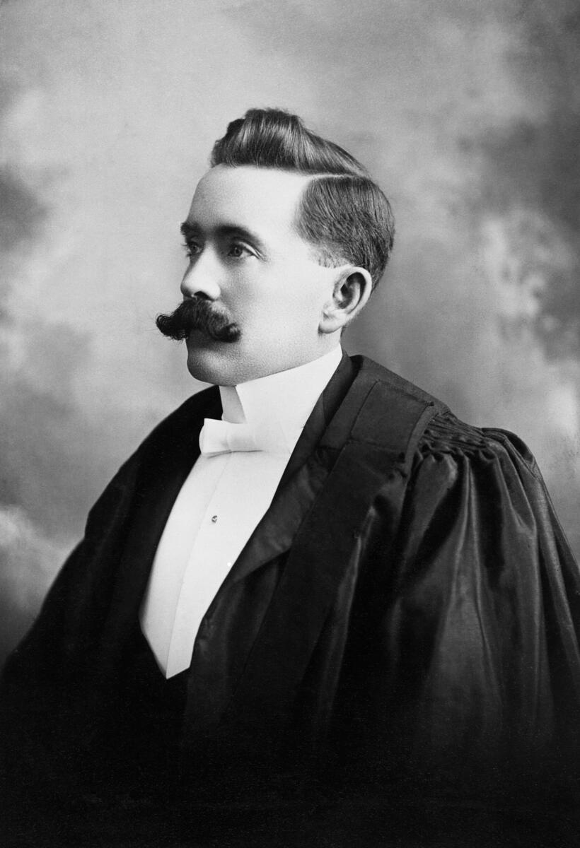 Photo of John R. Boyle (1871–1936) when he was a lawyer